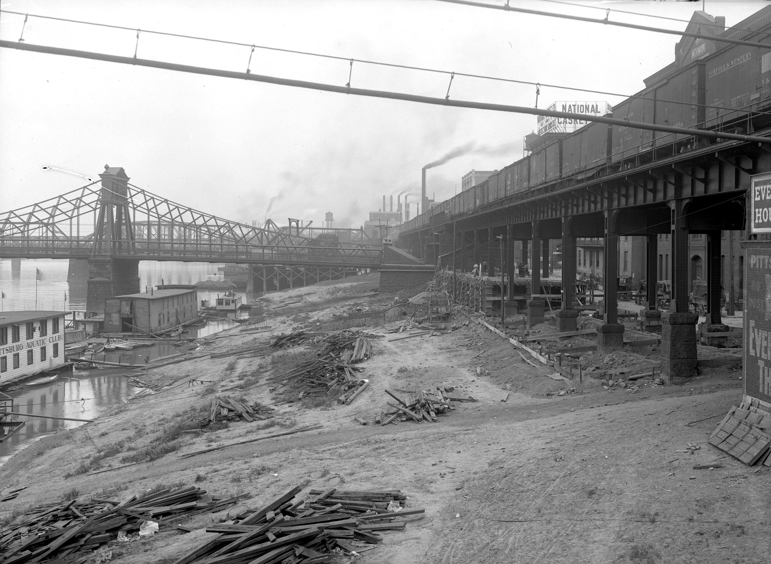 Duquesne Wharf looking east from the 6th Street Bridge, circa 1912